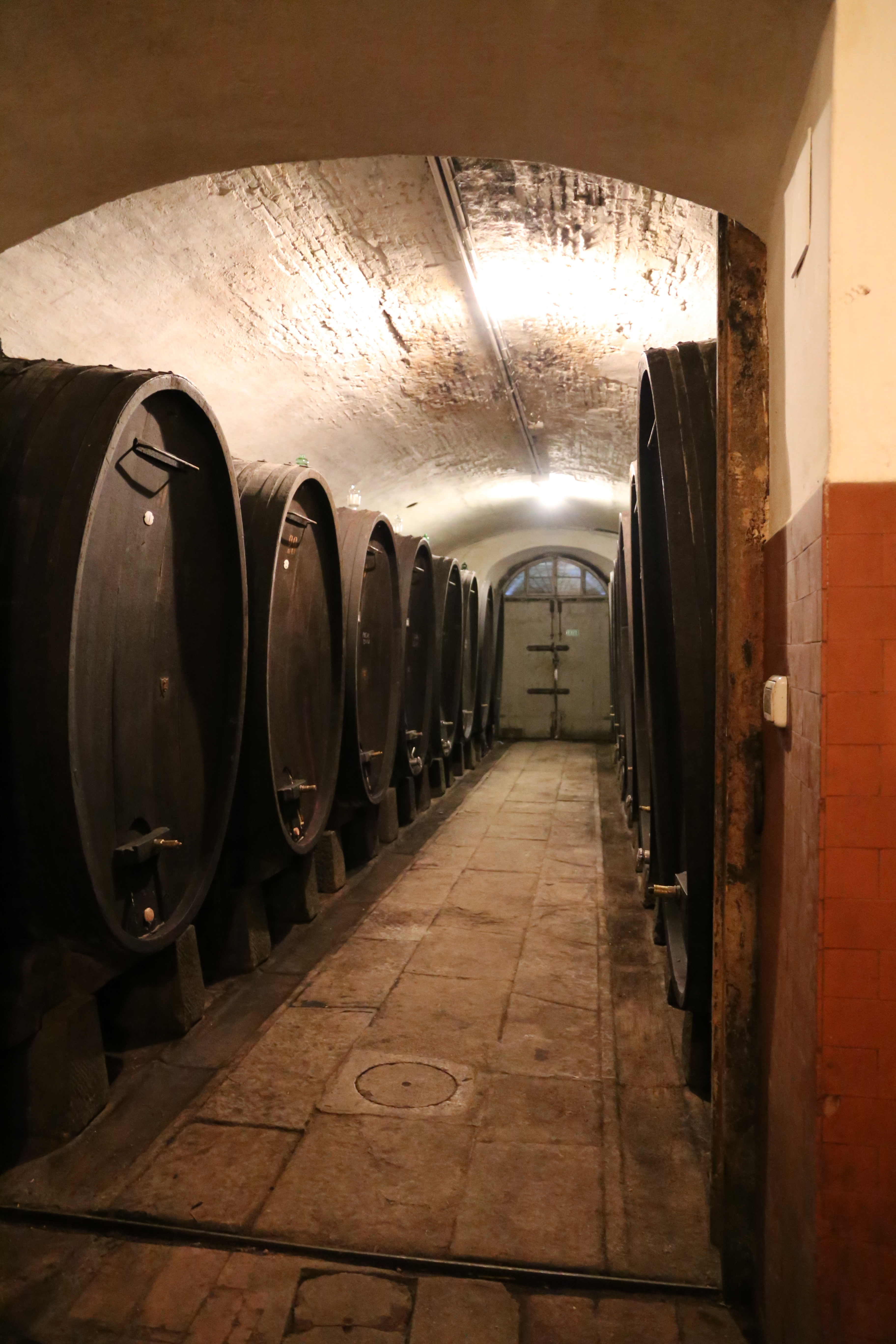 Villa Bossi (Pontassieve)